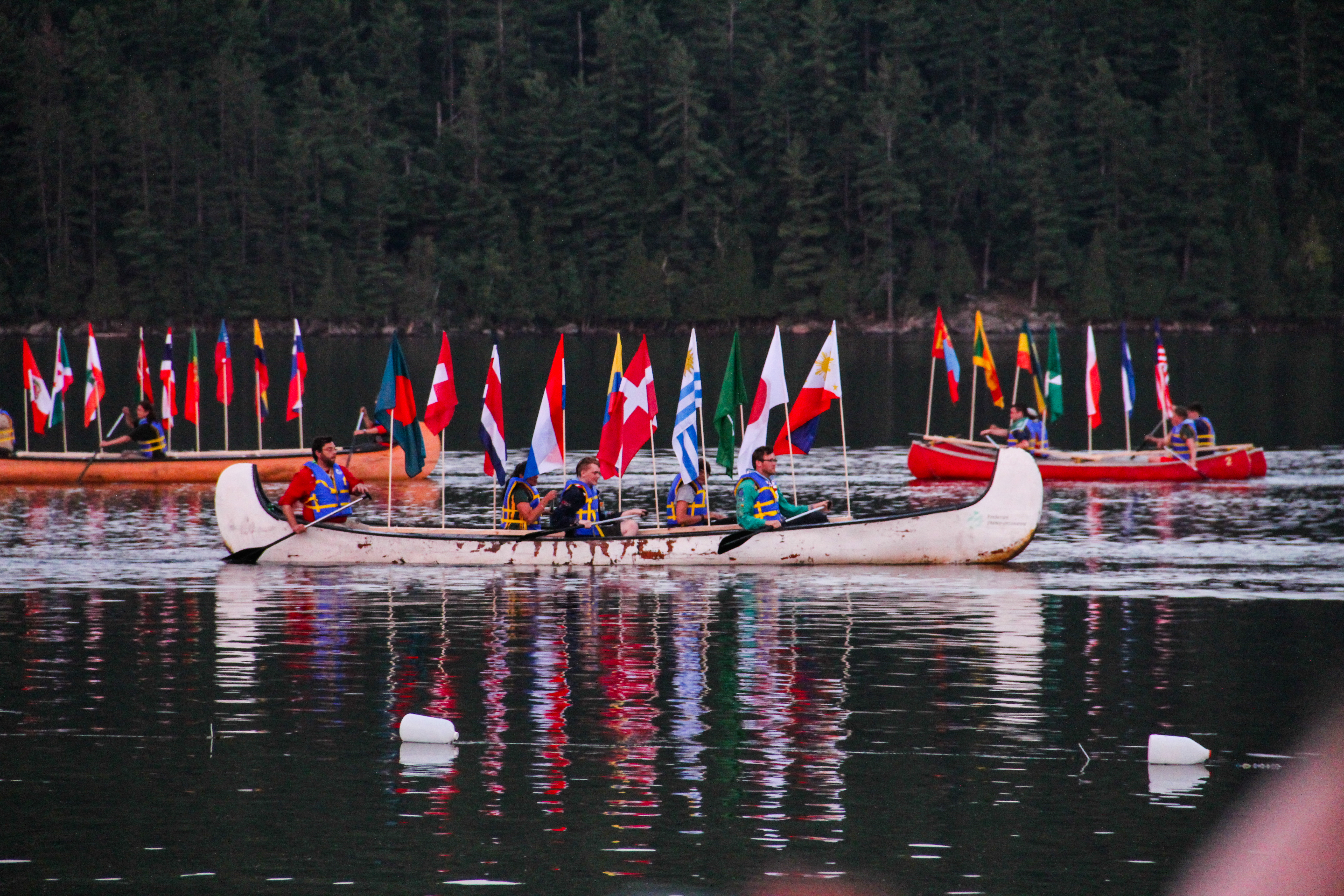 World Scout Moot 2013 Canada (4 of 259).jpg